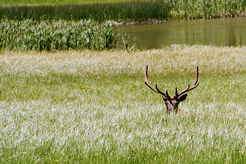 Yellowstone National Park, Wyoming, USA, elk lying in tall grass